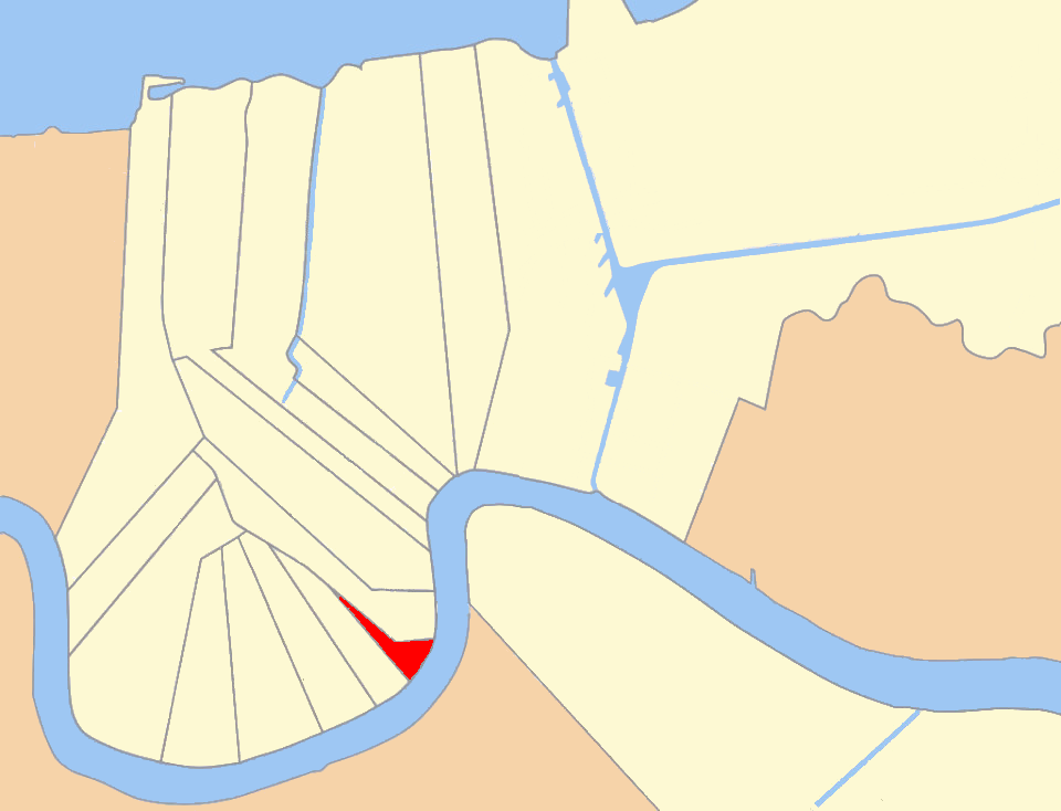 Highlighted red area shows the 1st out of 17 Wards of New Orleans located Uptown.